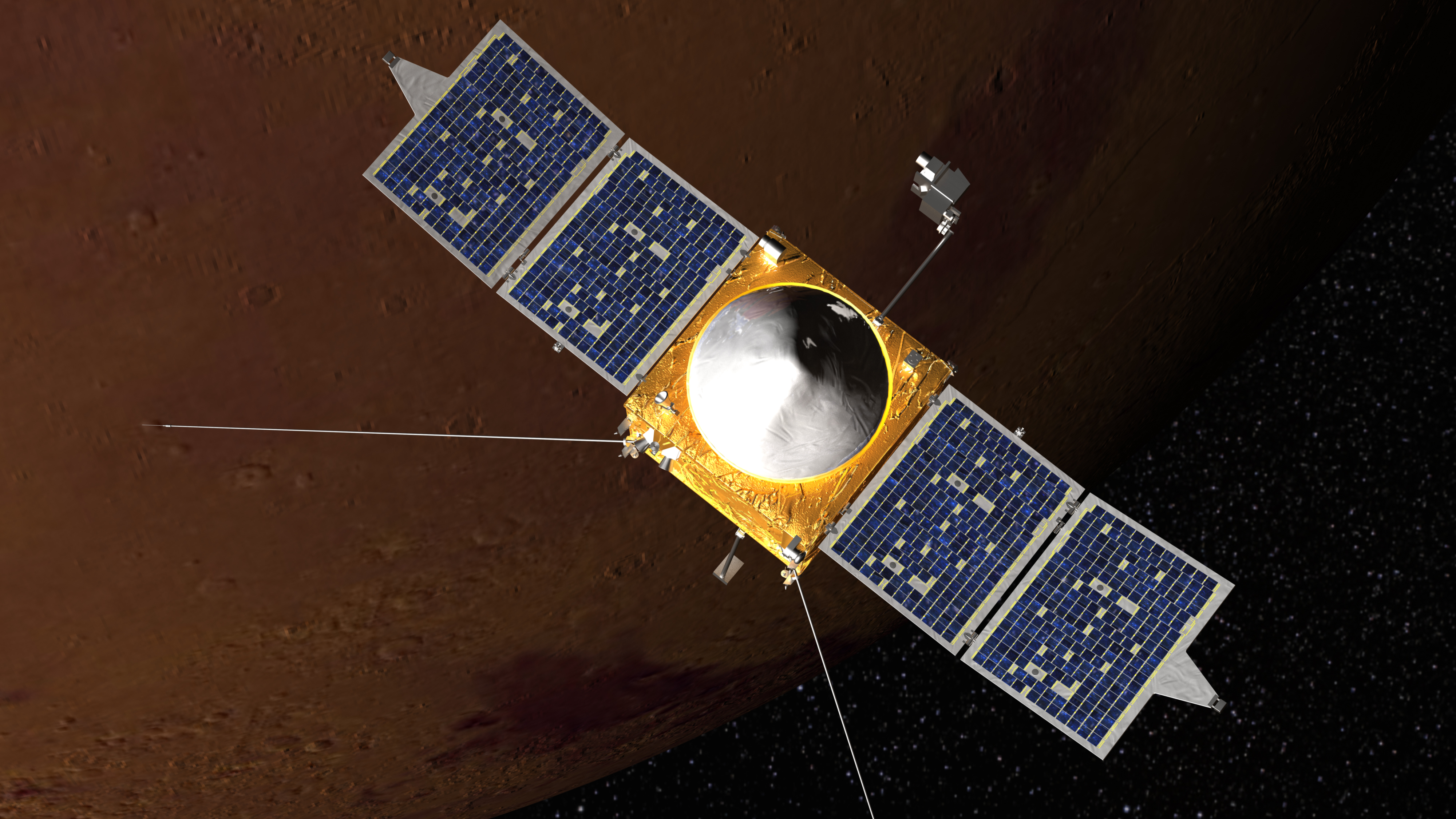 Artist concept of MAVEN spacecraft.